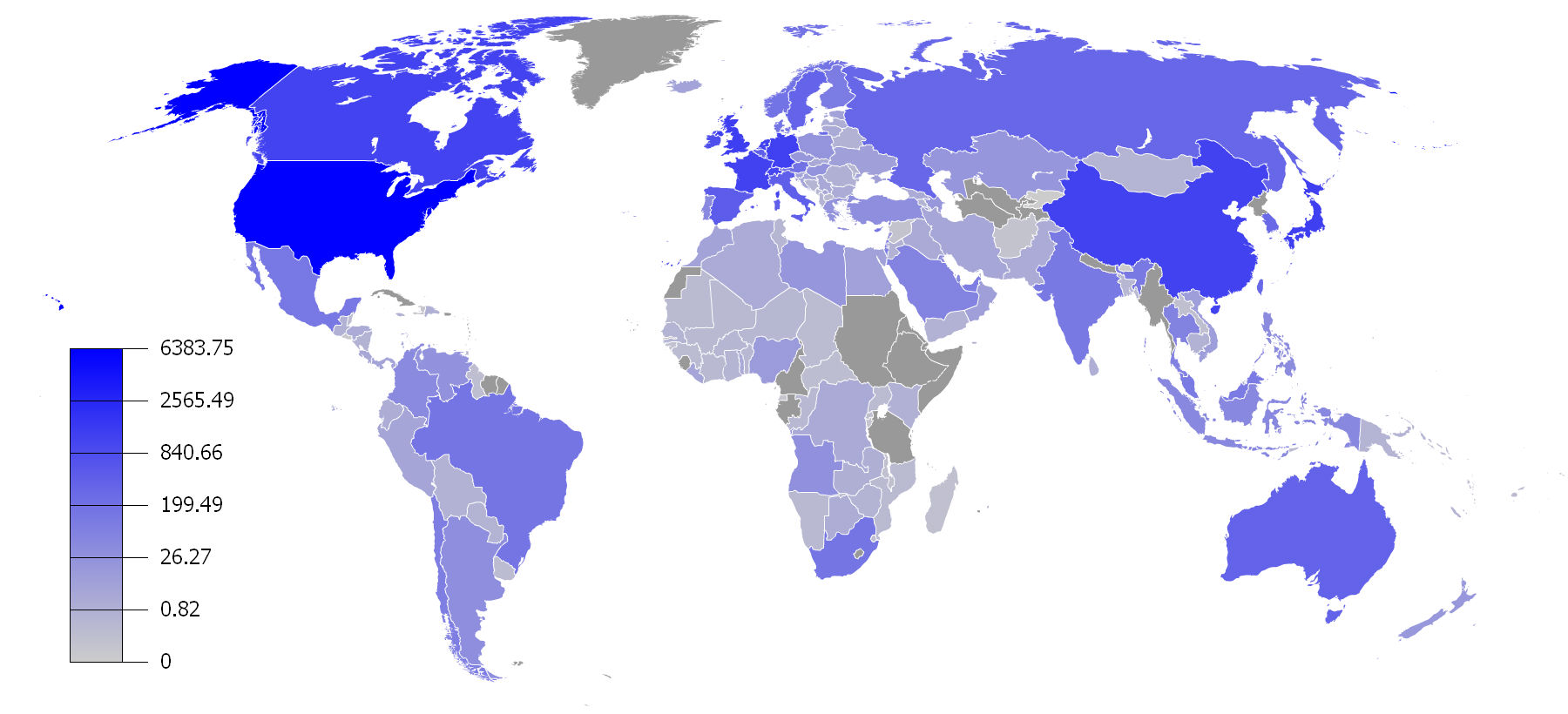 Outward FDI stock at the end 2016 (in US dollar billions)